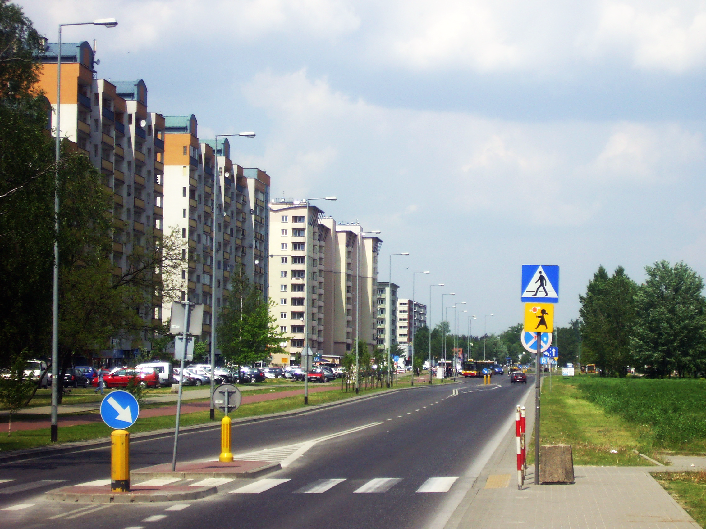 Warsaw - View of Światowida's street, main artery of Nowodwory